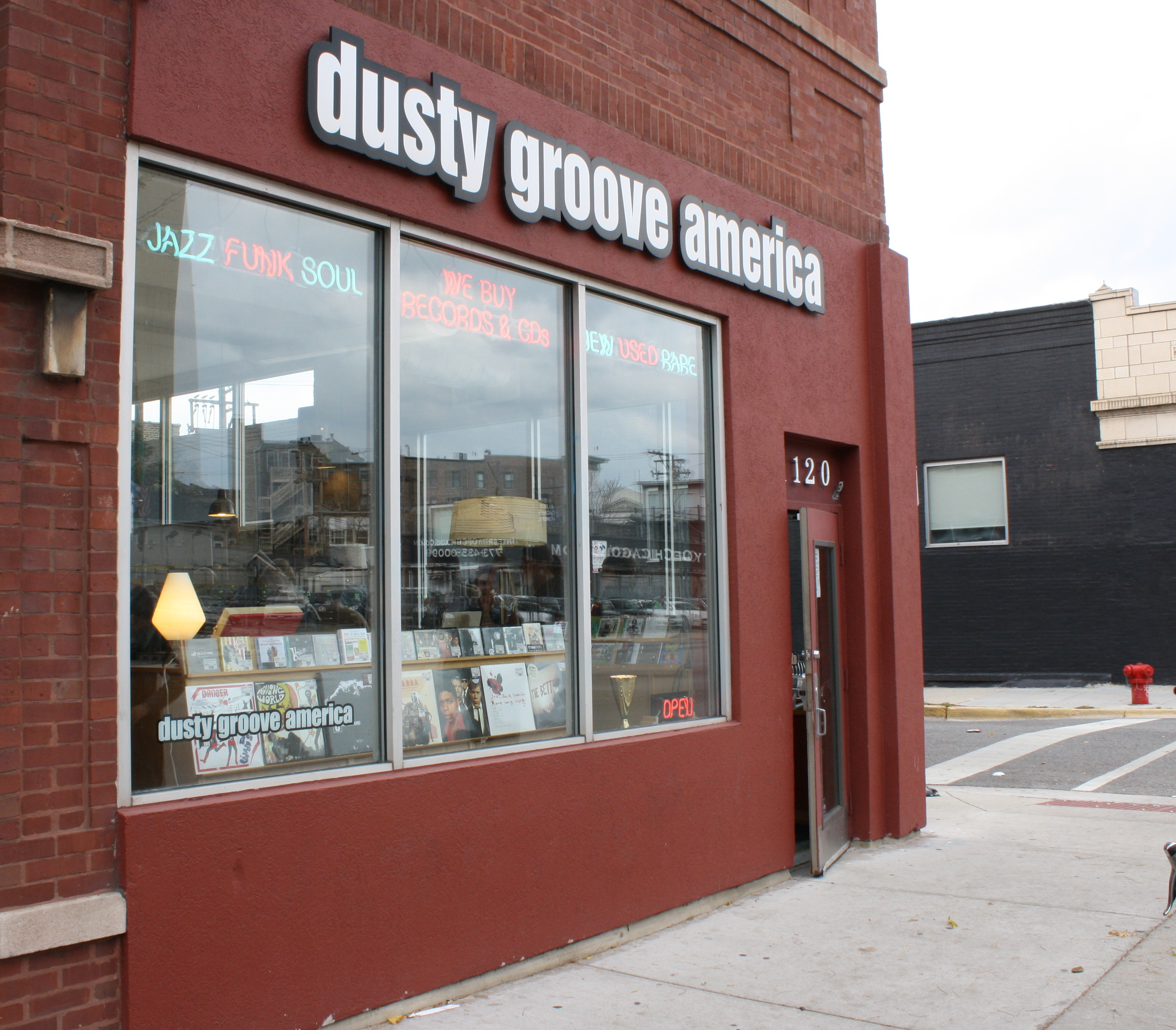 Front entrance to the Dusty Groove America storefront and headquarters in Chicago.